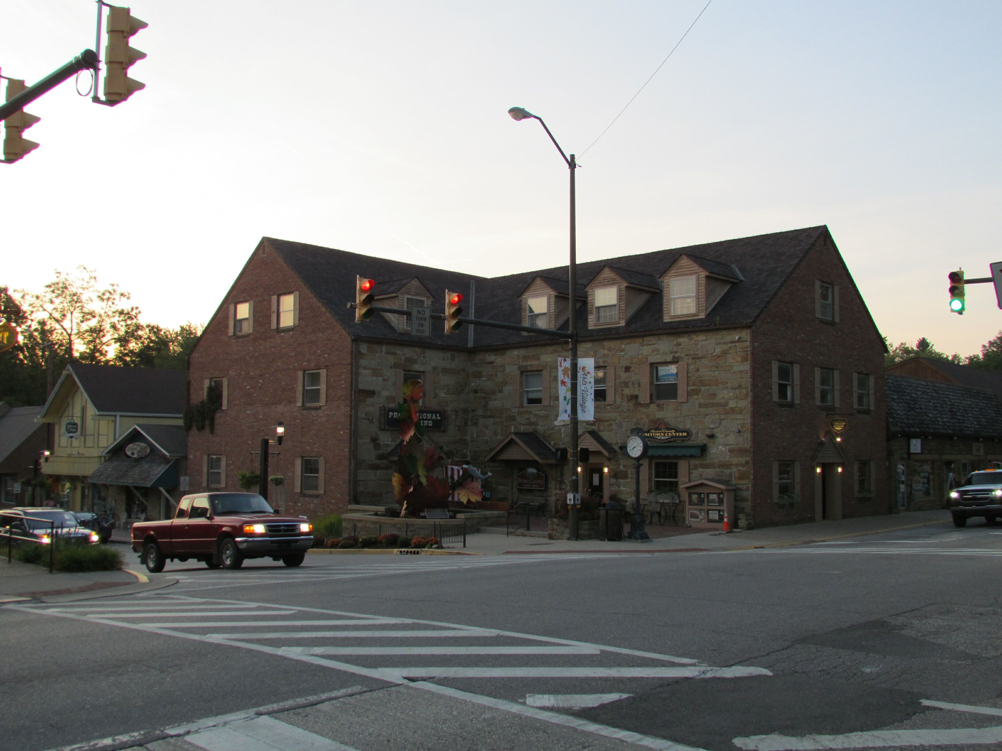 Chamber of Commerce, Nashville, Indiana